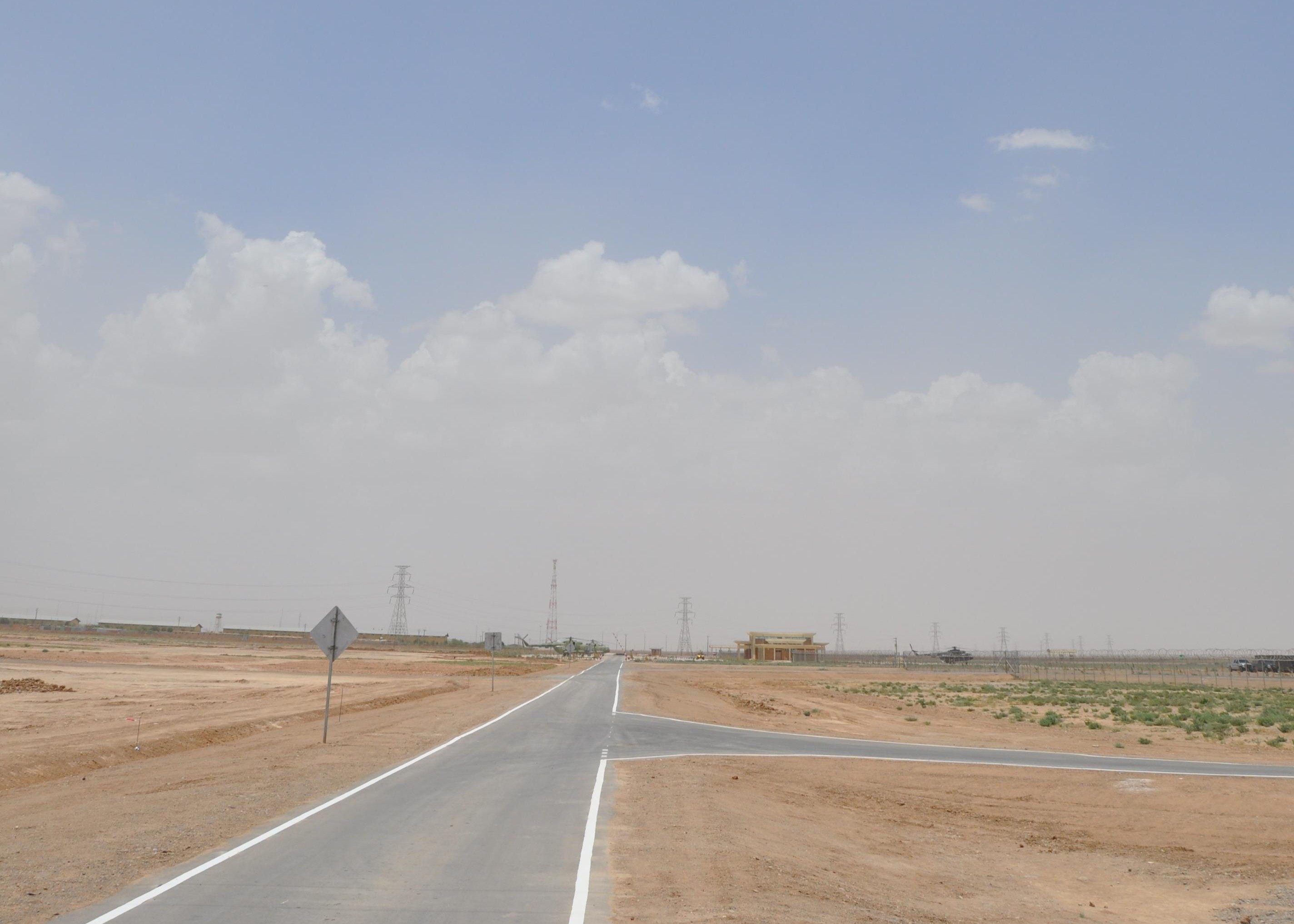 Islam Qelah in Herat Province of Afghanistan, near the border with neighboring Iran.